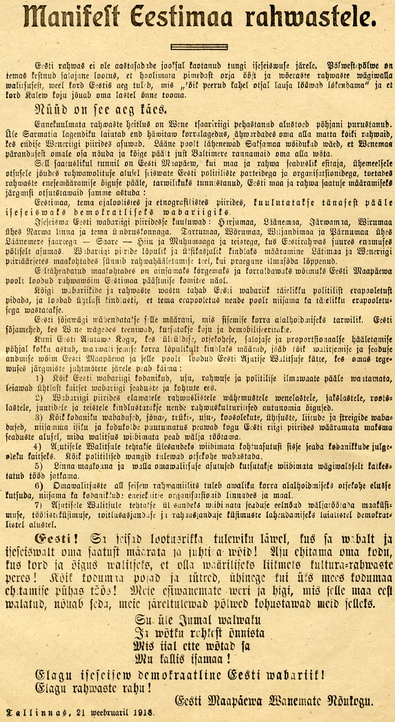 Historical document. Estonian Declaration of Independence